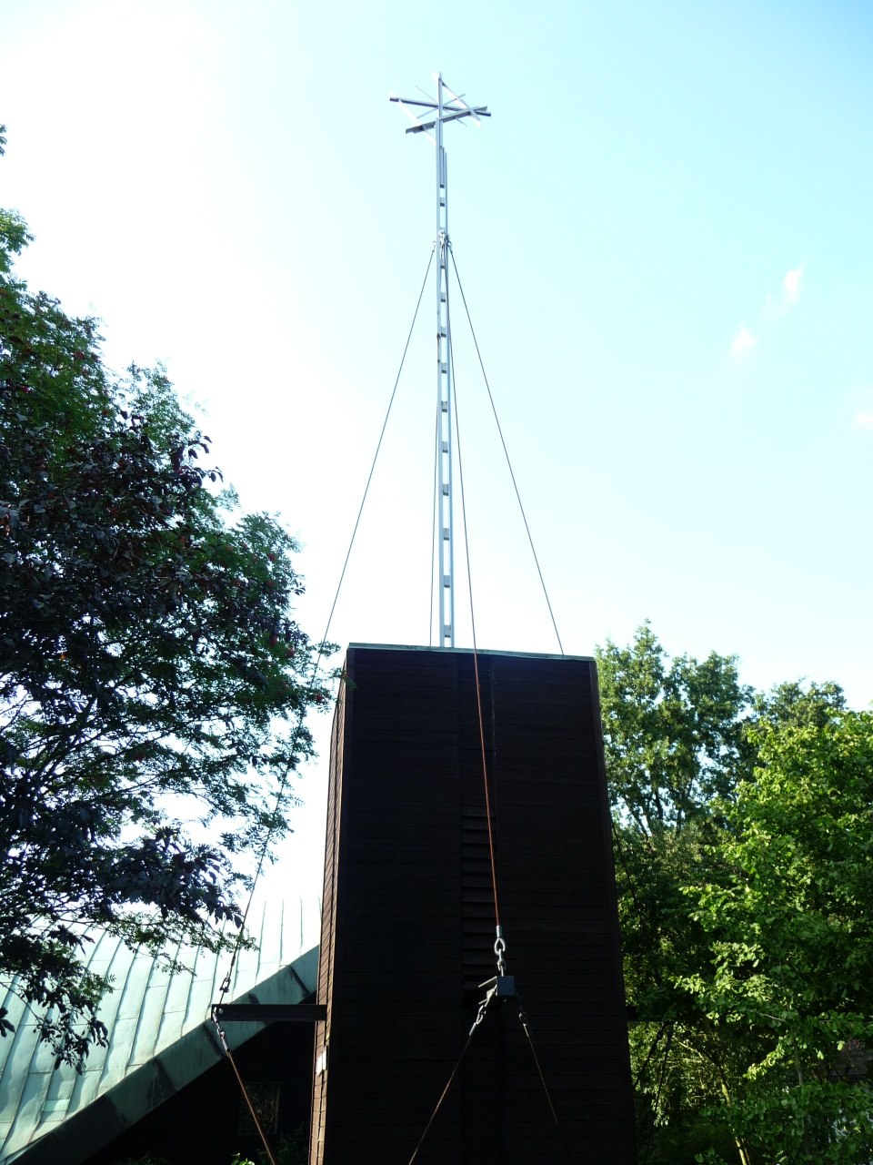 tower of the church St. Lukas in Bremen-Grolland